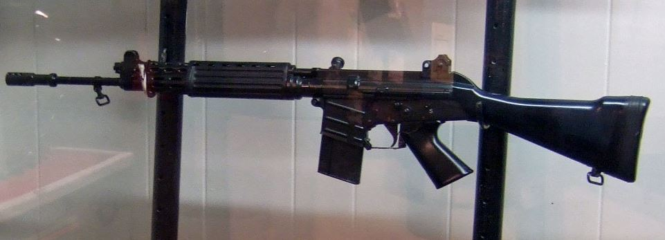 Cropped version of a previous Commons image. FN CAL rifle. Cropped for an article specifically on the vehicle. Limited contextual relevance to original work.